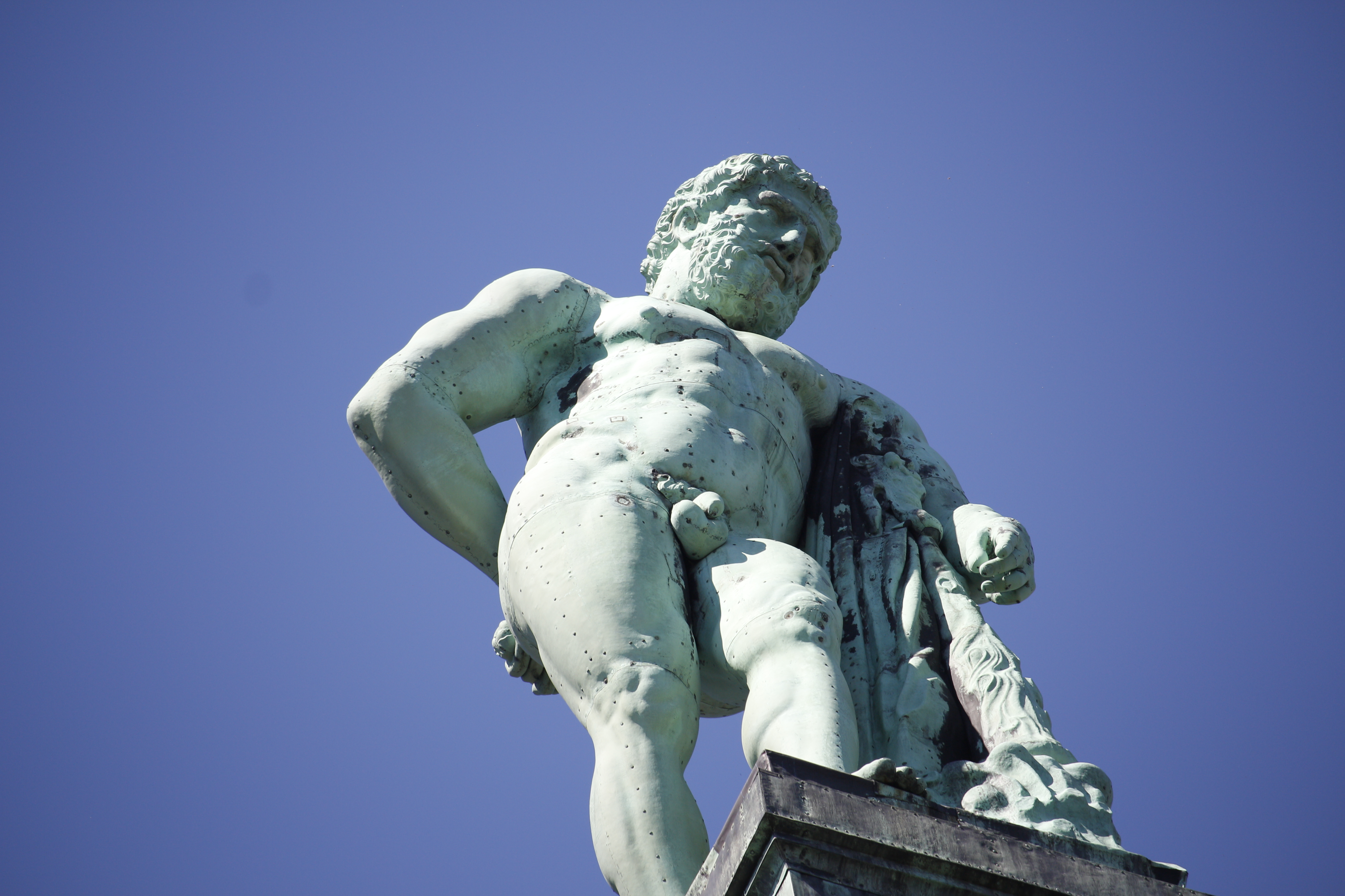 Close-up of Hercules monument, Kassel, Germany